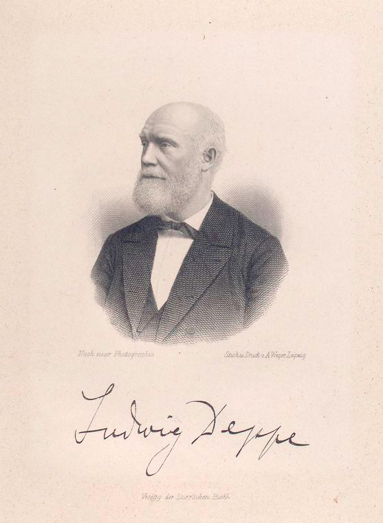 German pianist Ludwig Deppe (1828—1890)